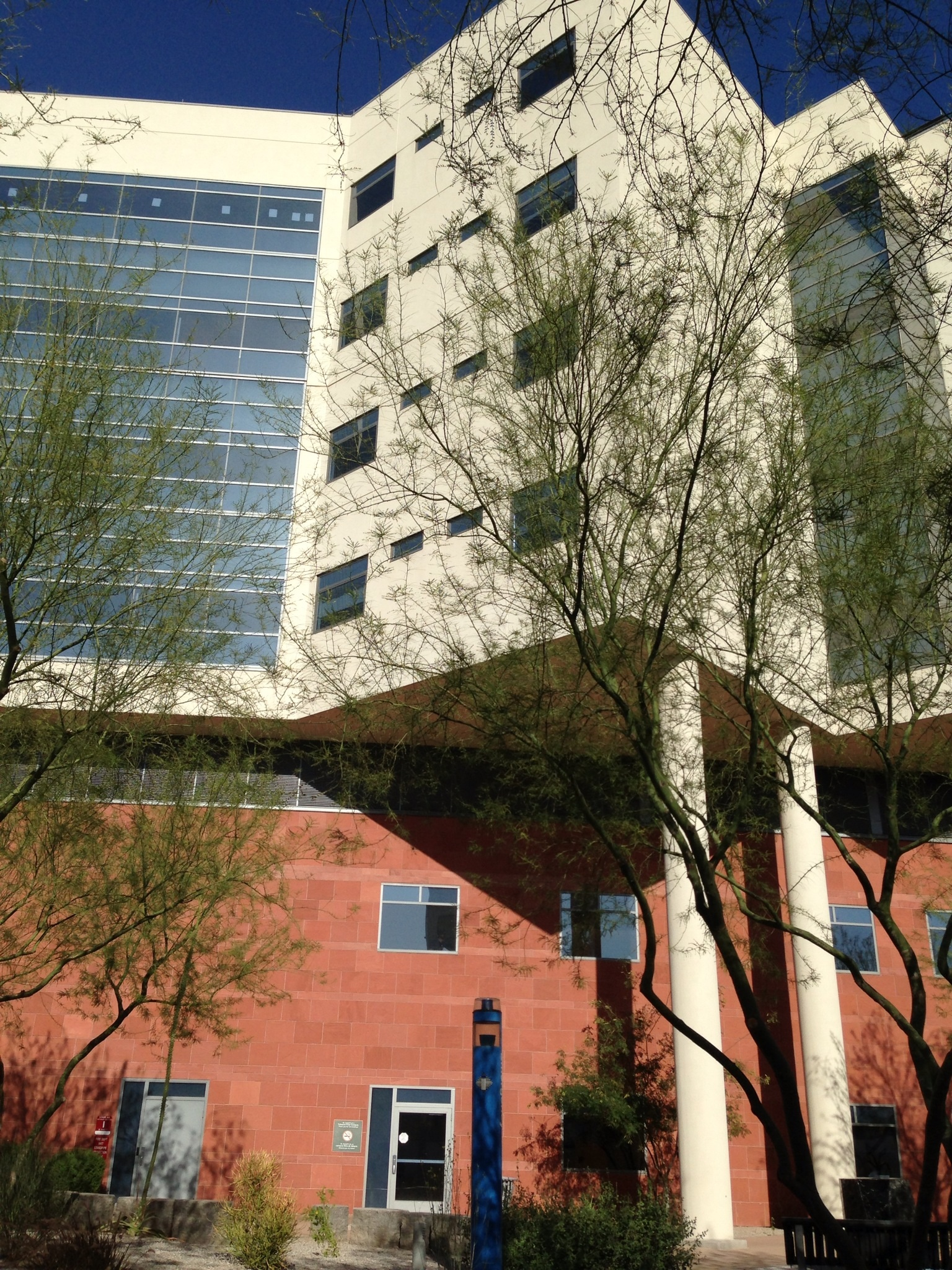 the barrow neurological institute